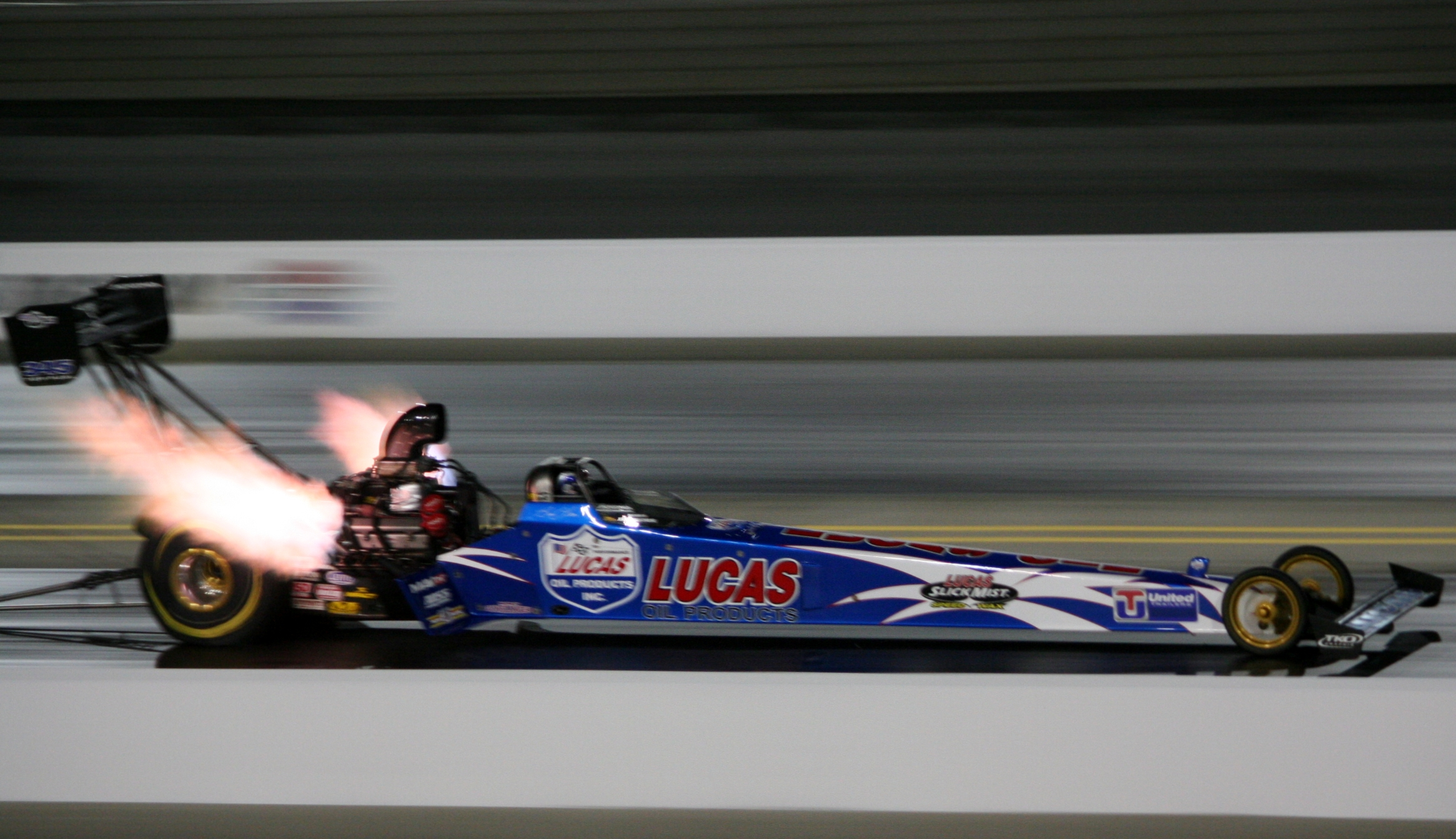 Chris Karamesines' Top Fuel dragster on track at zMax Dragway (Charlotte Motor Speedway), Spetember 16 2011.